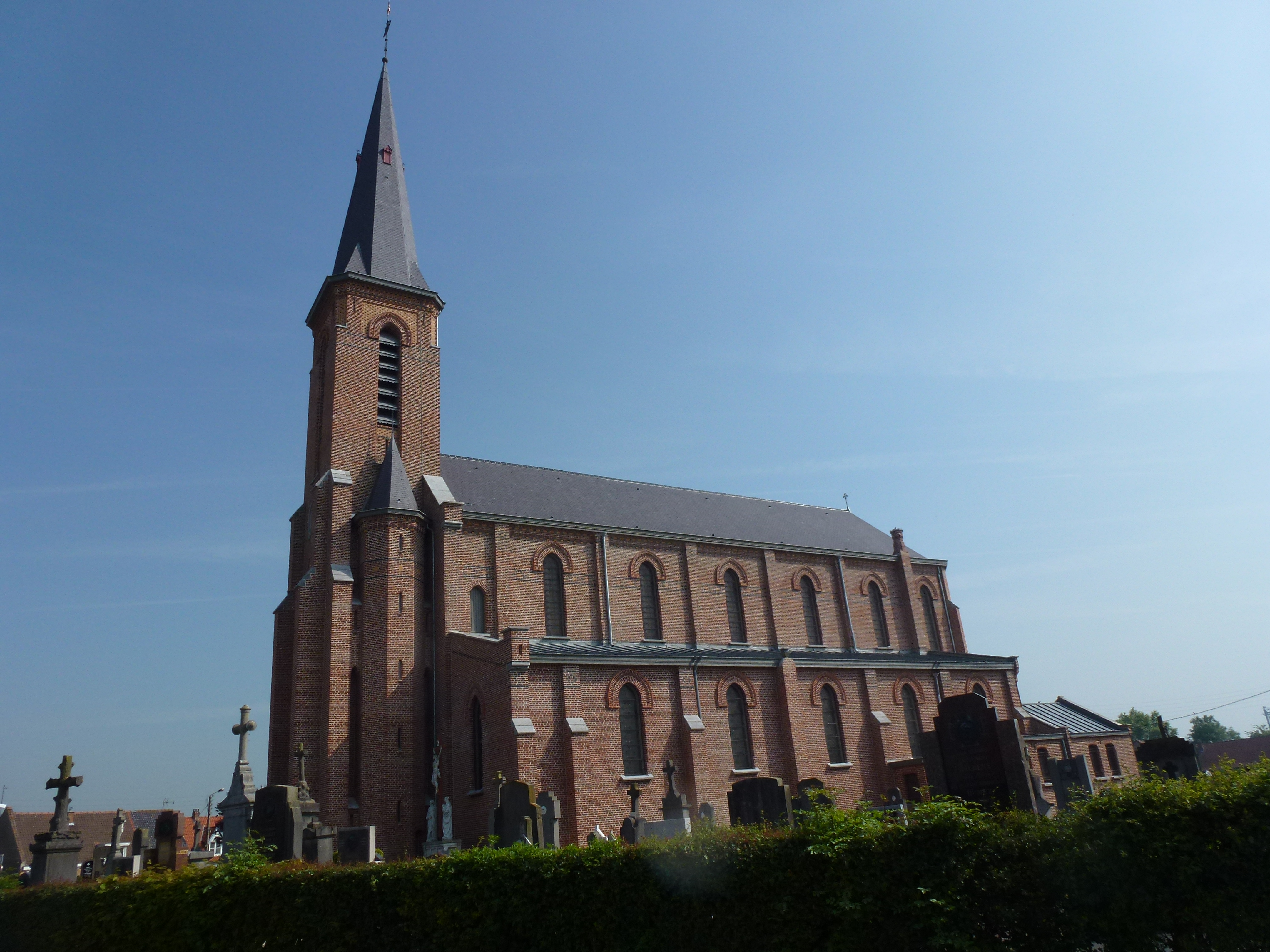 Zuydpeene (France - Nord department} - Saint Vaast church.